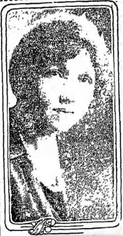 Winifred M. Hausam, Screenshot-2017-10-8 8 May 1922, Page 16 - The Los Angeles Times at Newspapers com